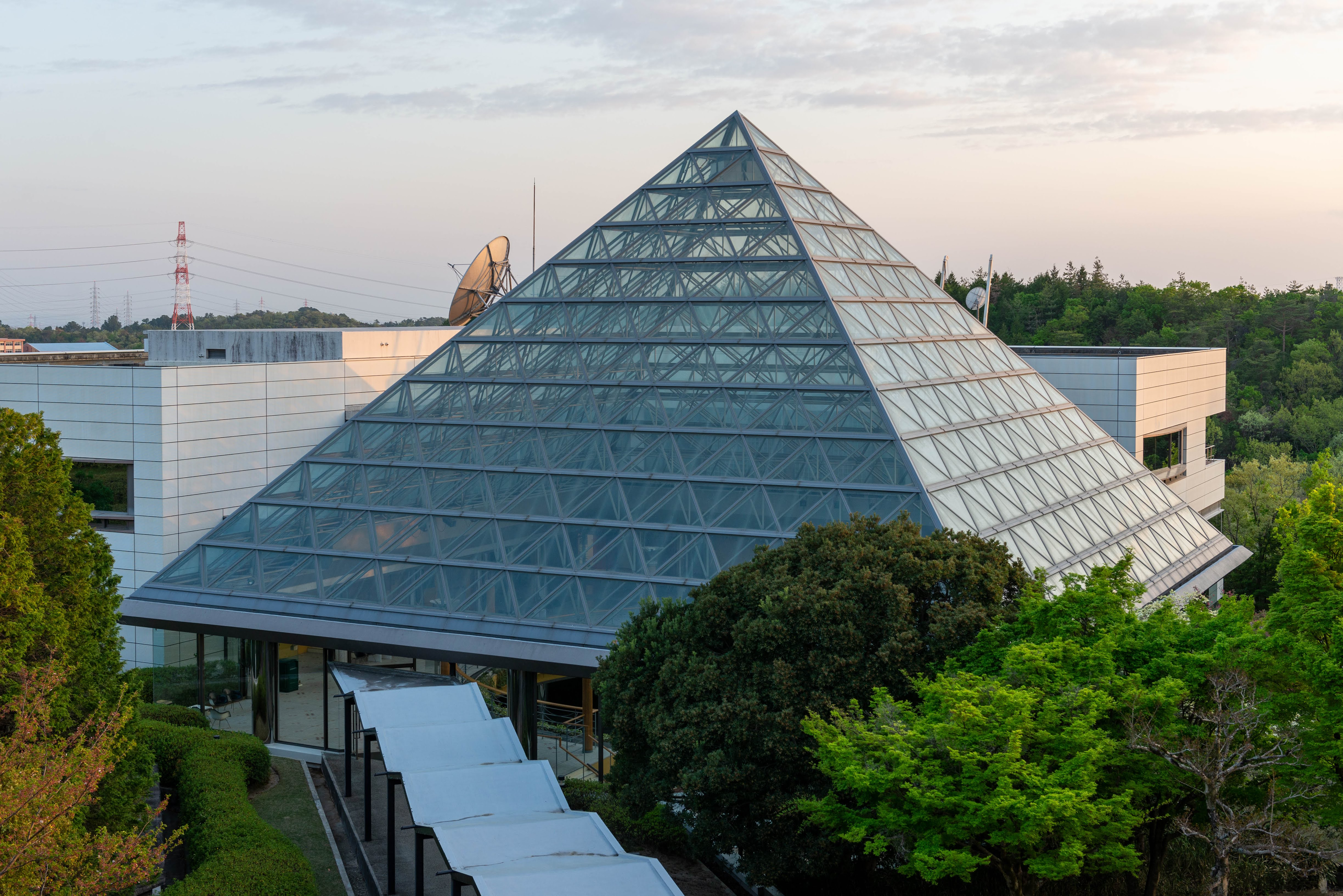 NUCB IS Building